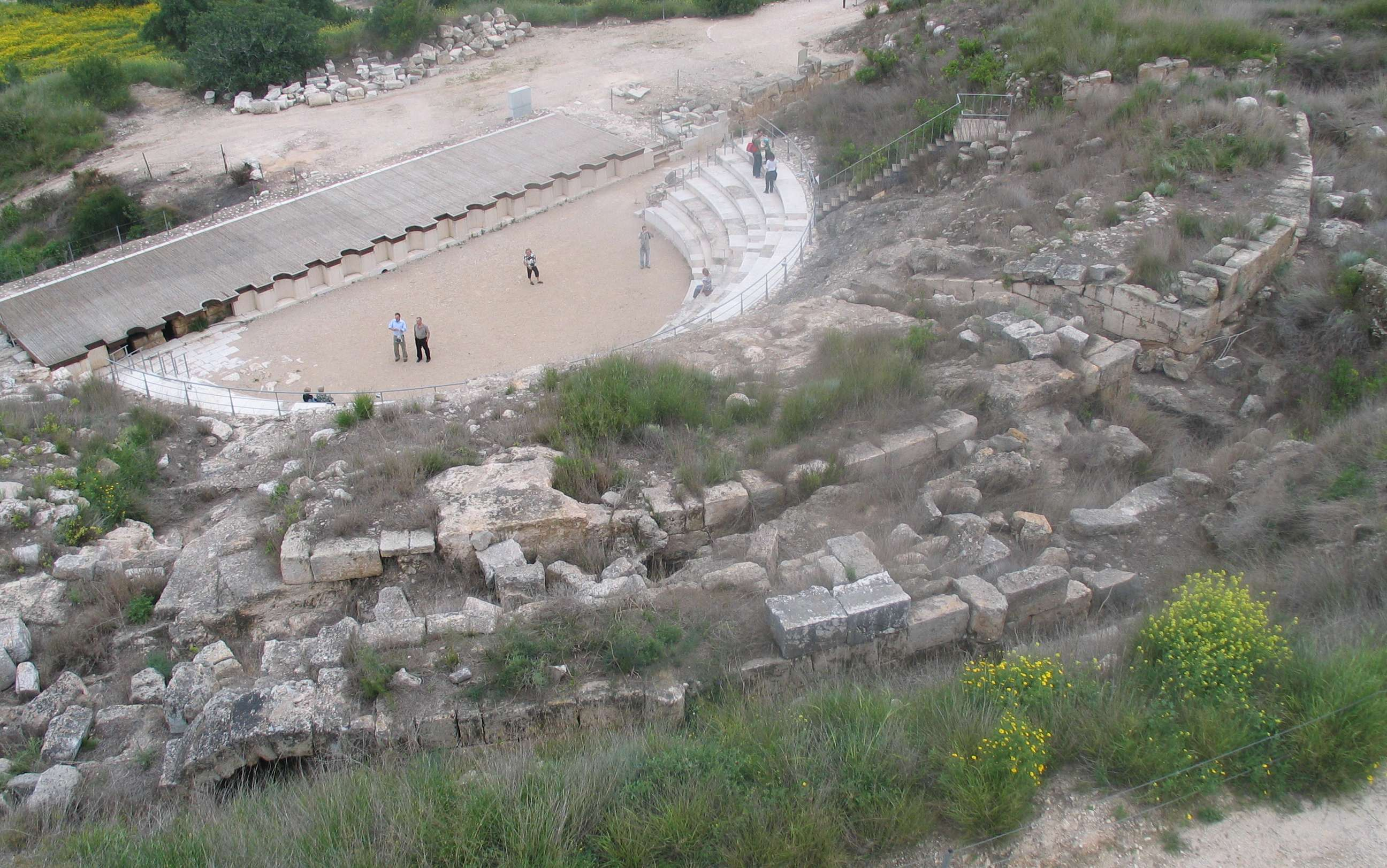 Roman theater in Tsipori, Israel.